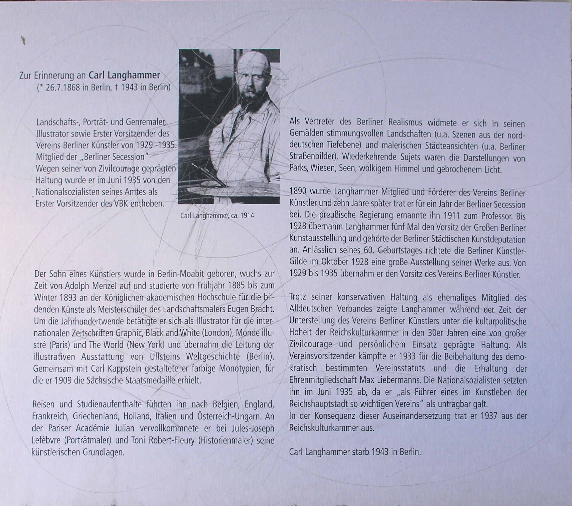 Memorial plaque, Carl Langhammer, Schöneberger Ufer 57, Berlin-Tiergarten, Germany Koordinate:52°30′20″N 13°21′59″E / 52.50556°N 13.36639°E